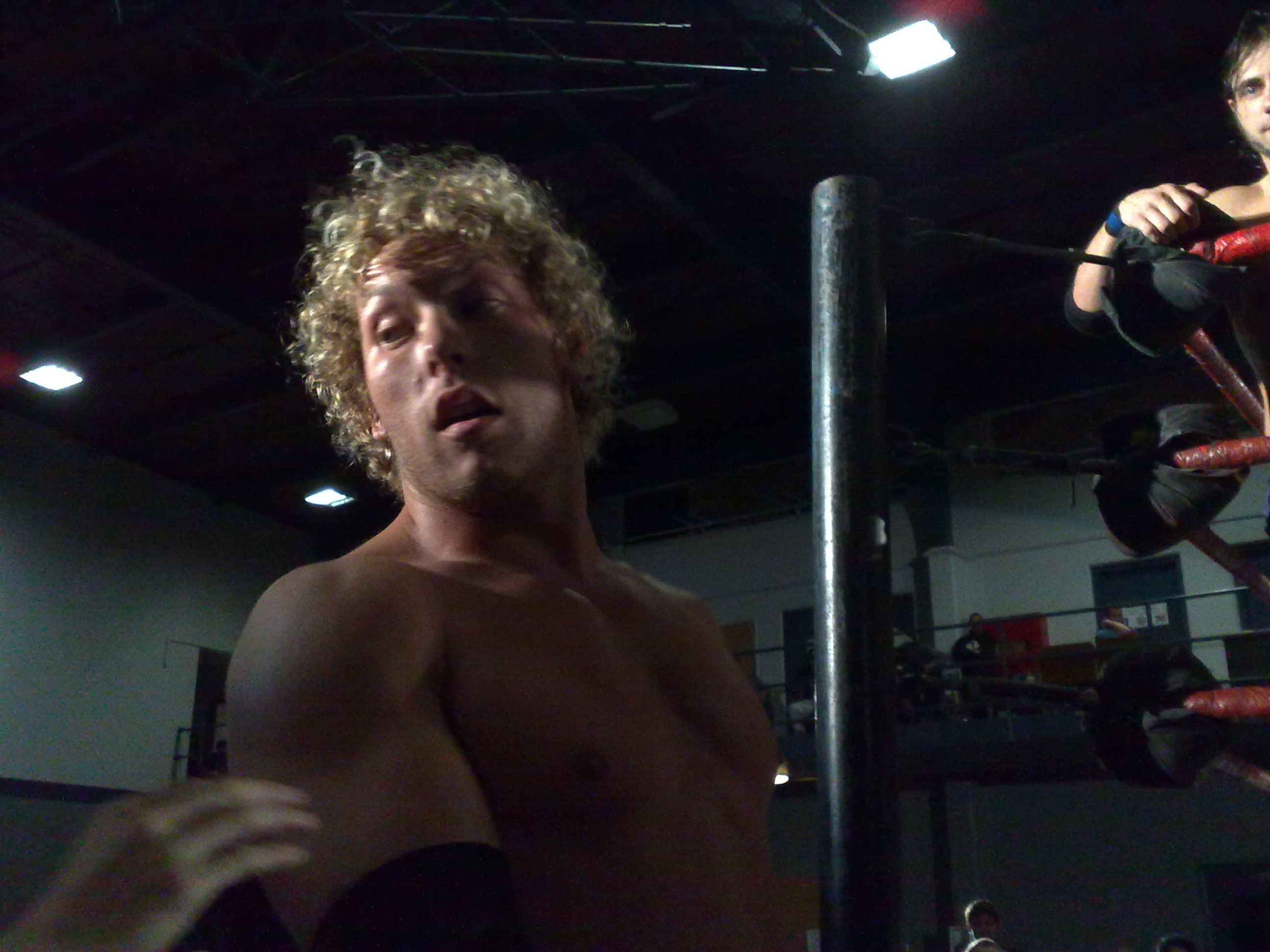 Professional wrestler Kenny Omega (real name Tyson Smith) at Pro Wrestling Guerrilla's Battle of Los Angeles 2008 Night 2 show on November 2, 2008.